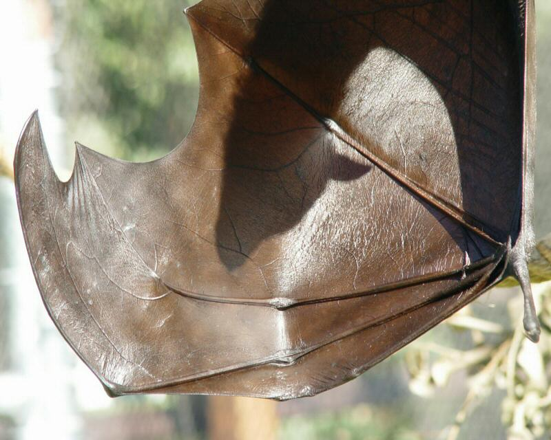 Bat shadow at the Oakland Zoo.